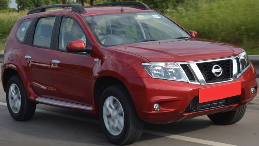 Nissan Terrano from Indian market